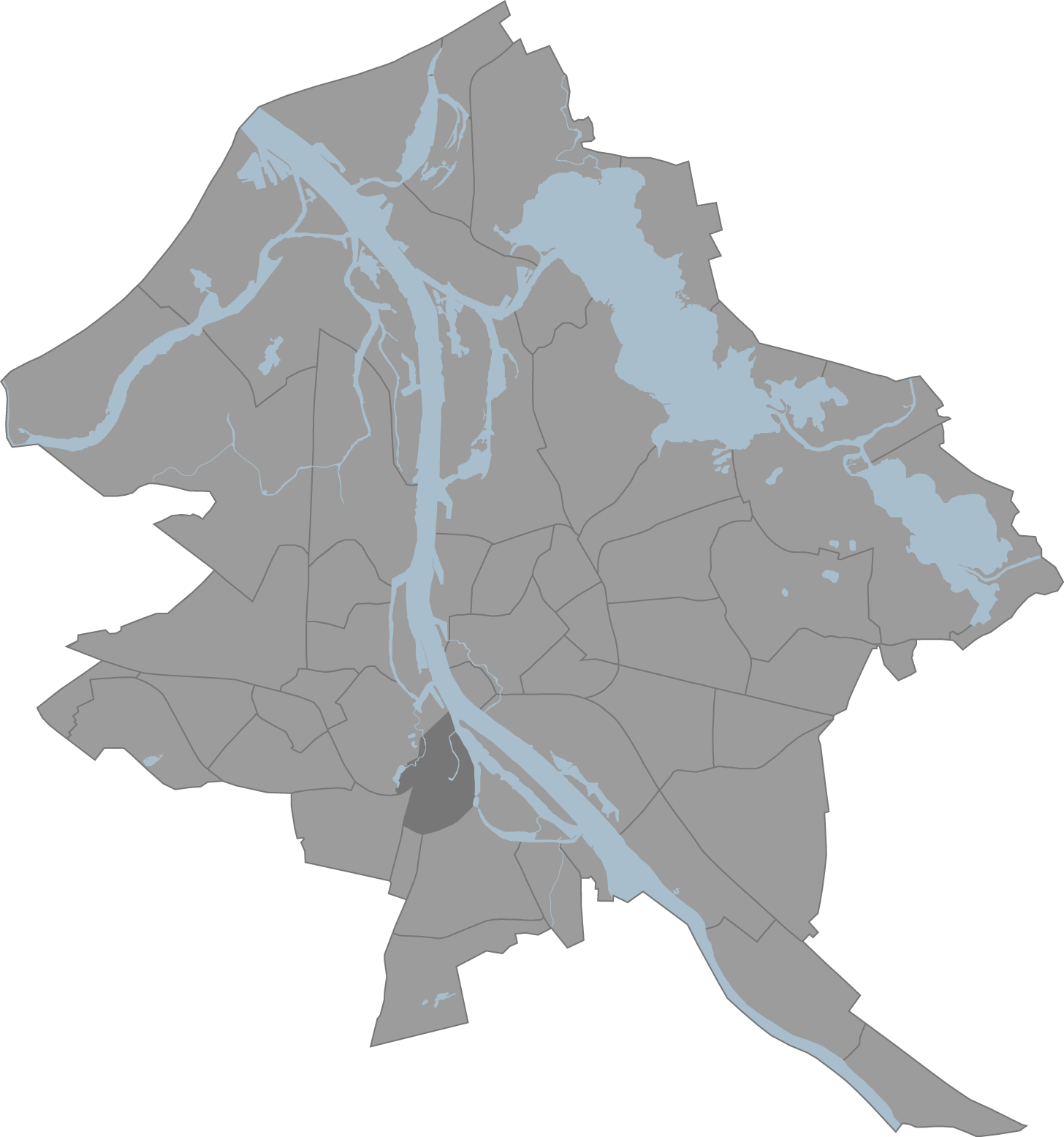 A map of Riga, Latvia with the eponymous commune highlighted